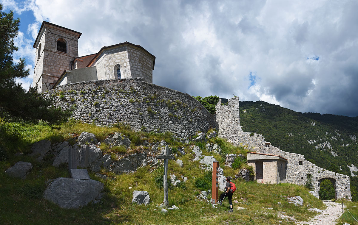 This cute church on a nice, high promontory was erected on a hill which was inhabited even in prahistory. In antiquity there was a high refugium and in the times of Turkish raids the place was also protected by walls. Nearby there is also a pilgrimage place with supposedly healing water.